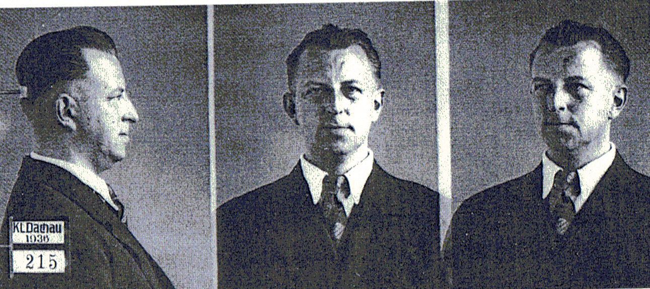 Karl DuMoulin Eckart, aide-de-camp of Ernst Roehm from 1930 to 1932 as a prisoner in Dachau Concentration Camp in 1936.